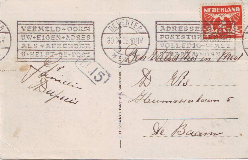 Picture postcard from Deventer to Baarn (address side), 30 October 1925, with machine cancellation Deventer and delivery postmark D.15. The postage stamp was designed by Chris Lebeau (1878-1945).